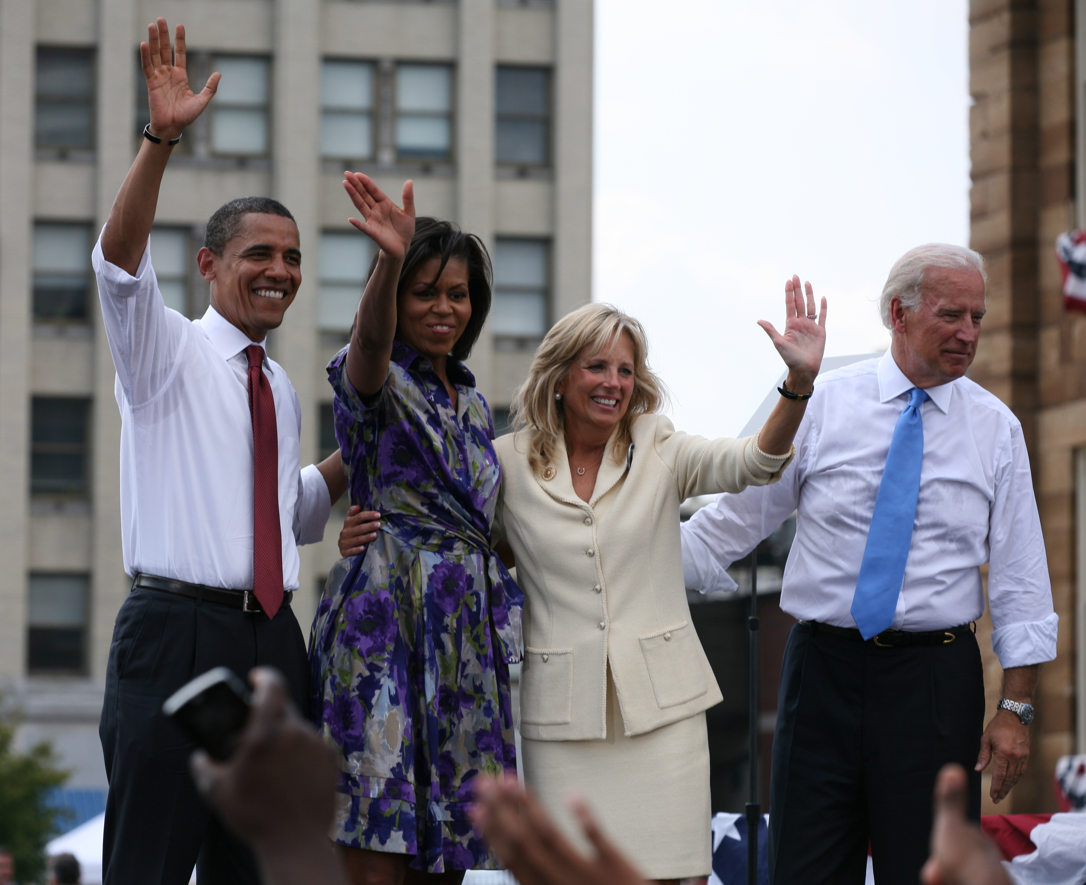 Barack and Michelle Obama with Joe Biden and his wife Jill.